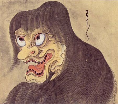 WauWau (わうわう, the hairy hag) from the Hyakkai Zukan (百怪図巻)